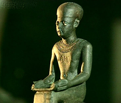 Kemmetiu true likeness of Imhotep.